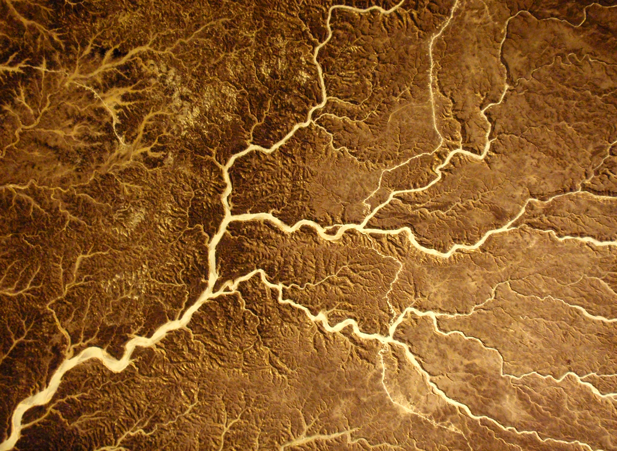 Satellite image of the Tibesti Mountains, Chad, where you see a network of tributary channels